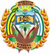 Escudo de Nuestro Municipio